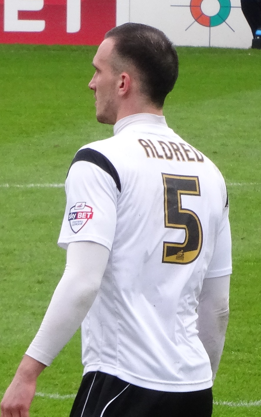 Tom Aldred.